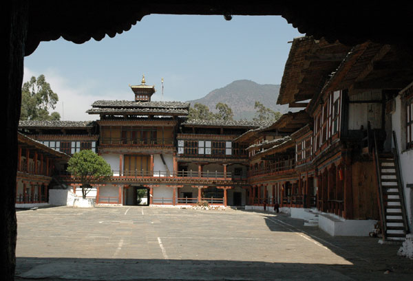 Wangdue Phodrang dzong, Bhutan